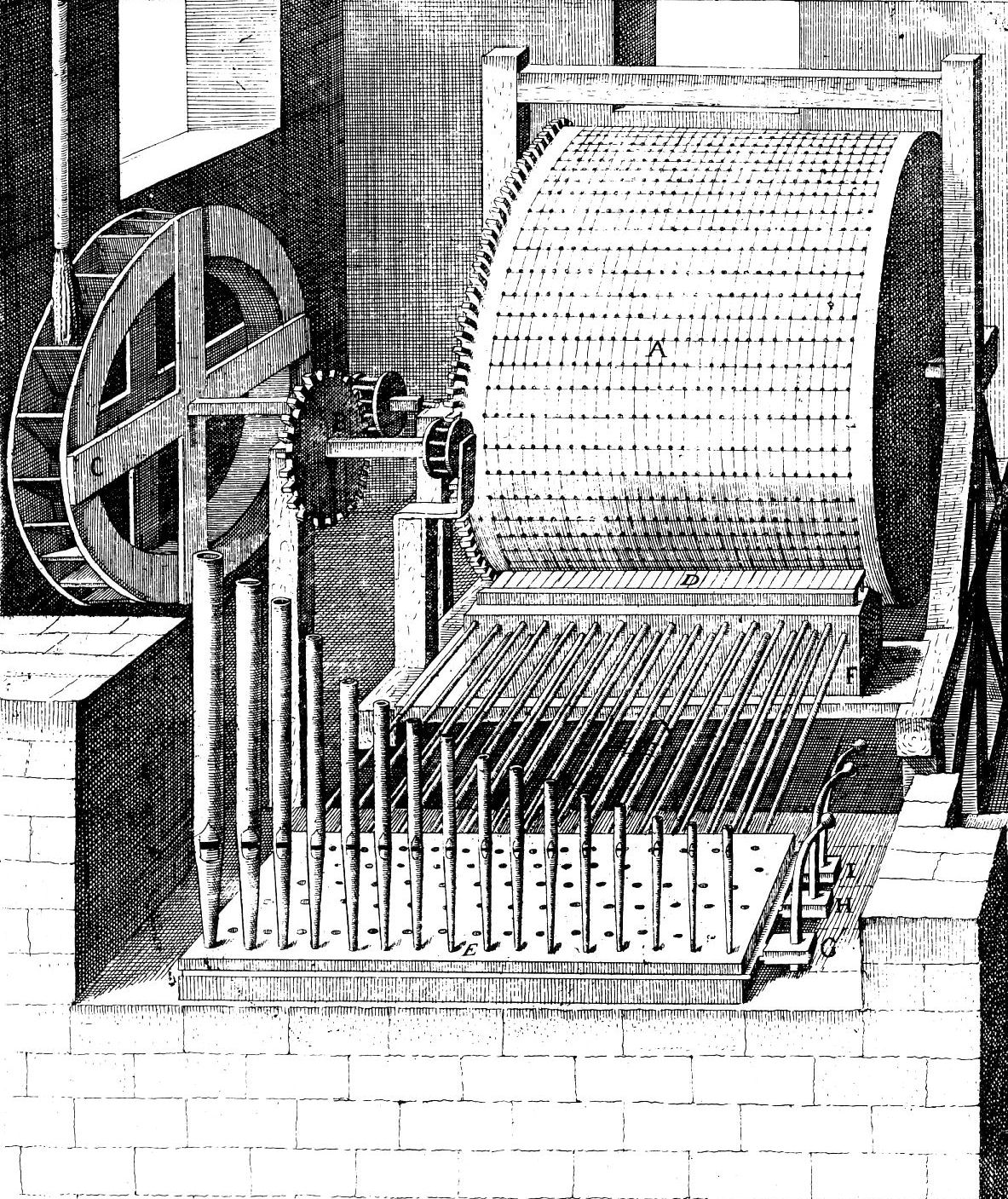 historic drawing of Heidelbergs Hortus Palatinus